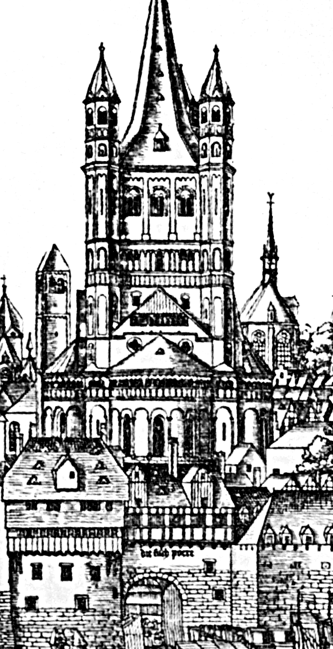 Cutout with the church Groß St. Martin (Köln) and St. Brigiden of woodcut of Cologne, Germany